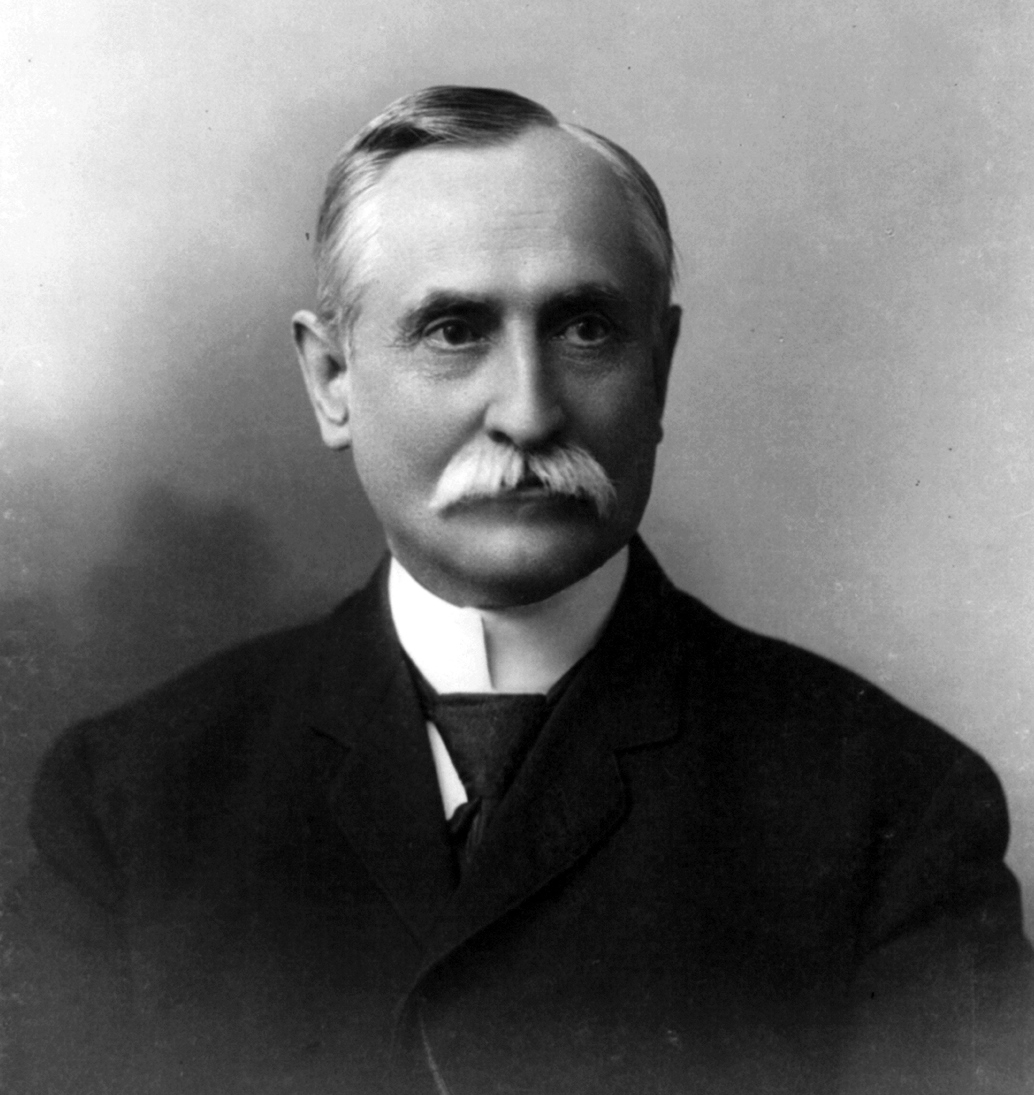 Calvin Augustine Frye (1845–1917), personal secretary to Mary Baker Eddy, founder of Christian Science